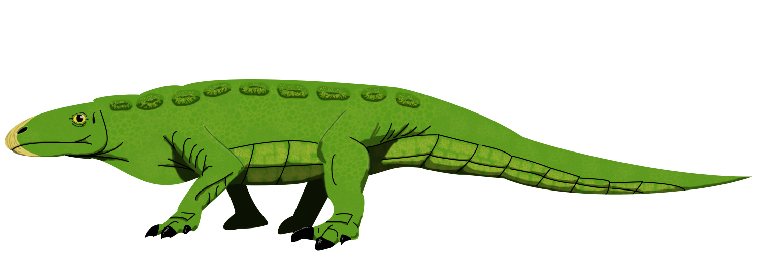 Hypothetical life restoration of Crosbysaurus, only known from teeth. The image was created by Robert Gay, the lead author of the description of more teeth.